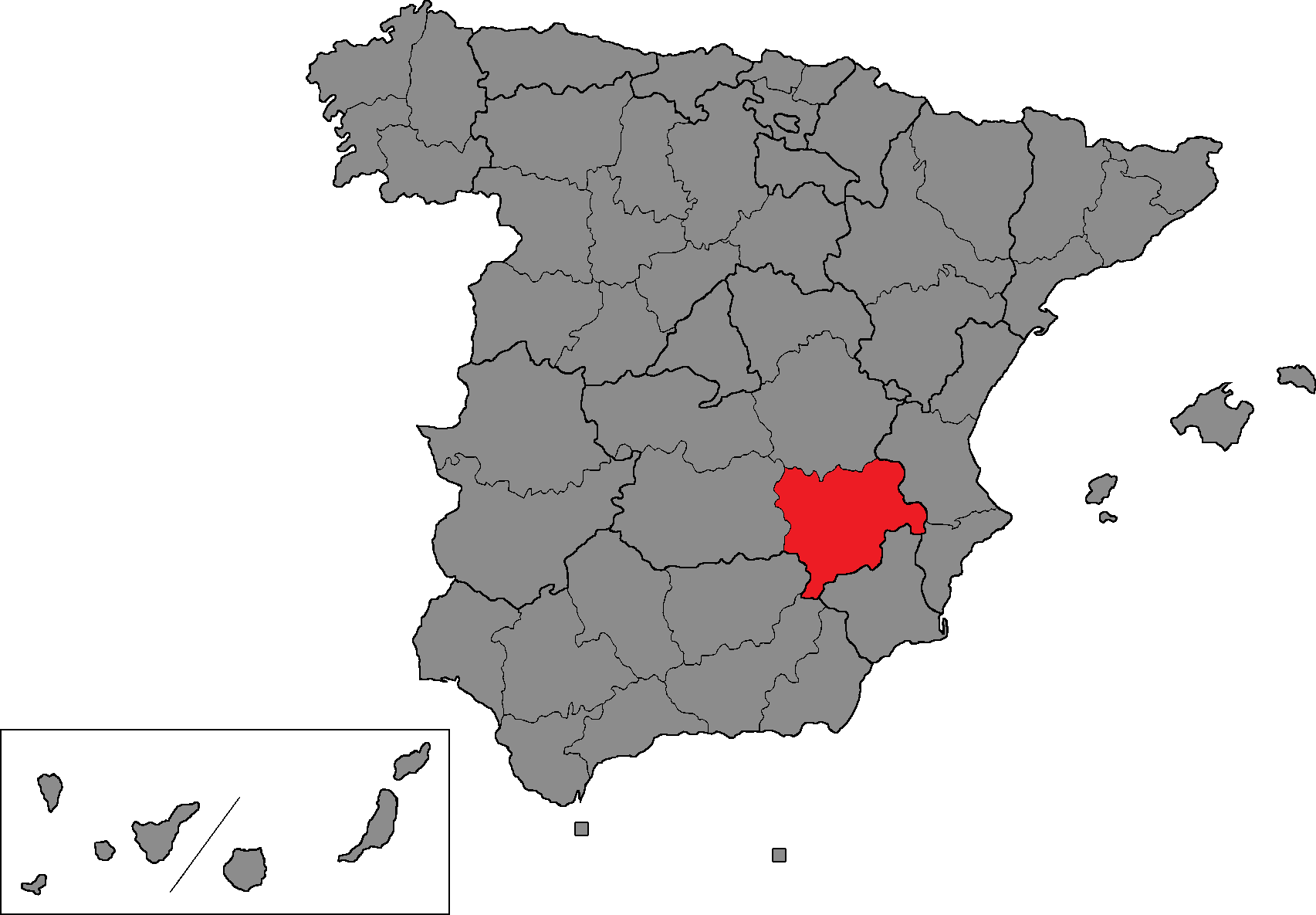 Spanish Congress of Deputies district of Albacete.